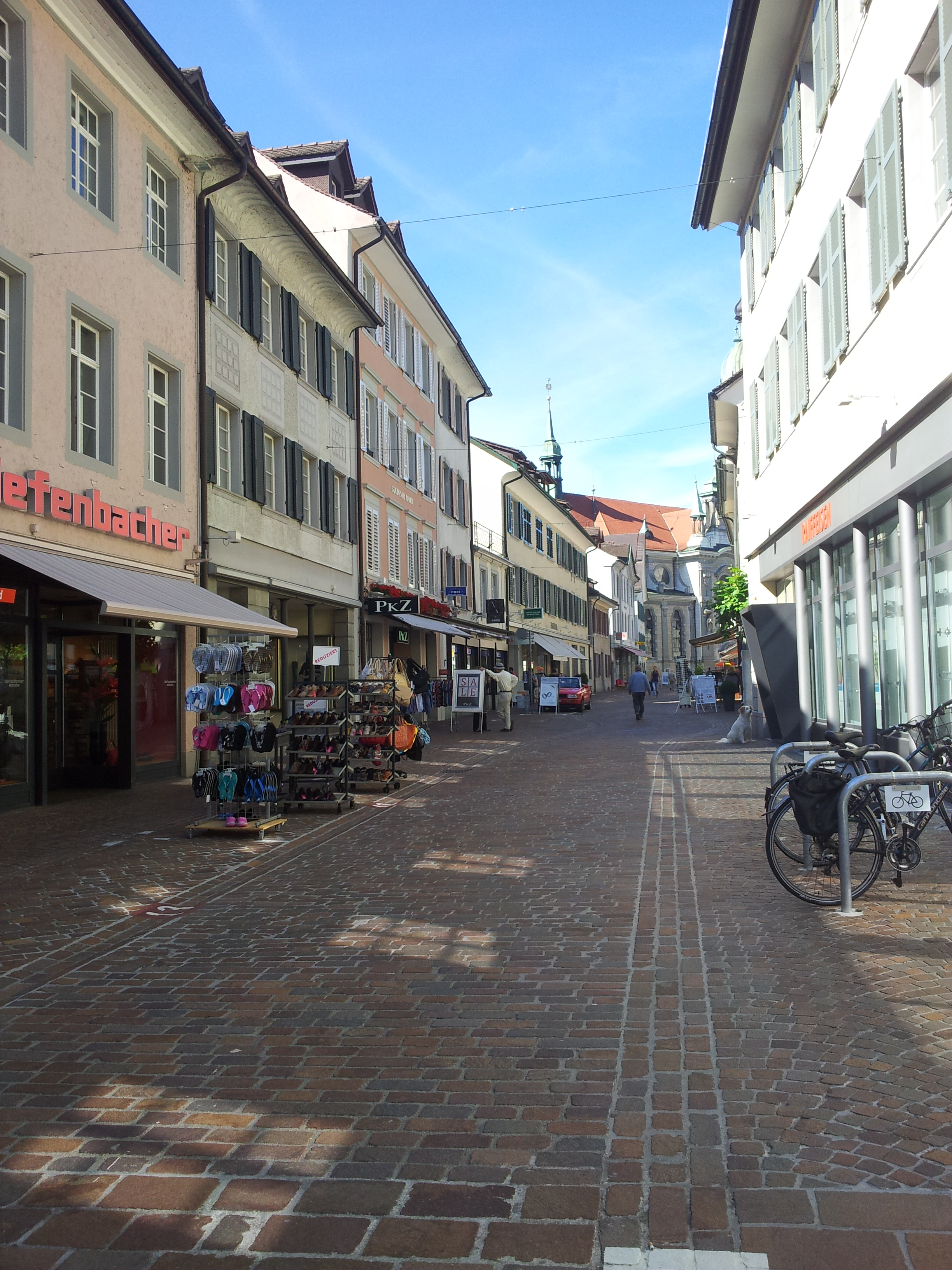 Taken in the old town of Frauenfeld, Thurgovia, Switzerland.